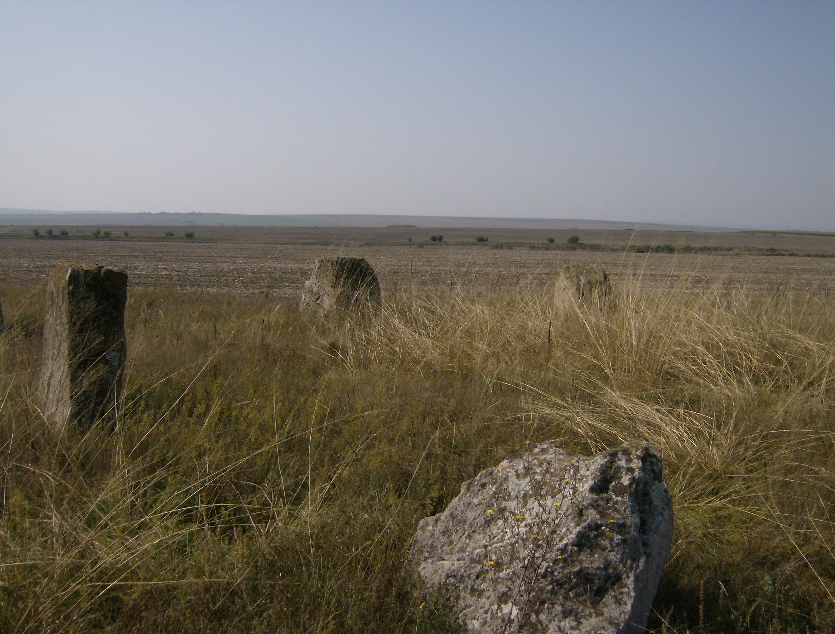 Menhirs near Pliska